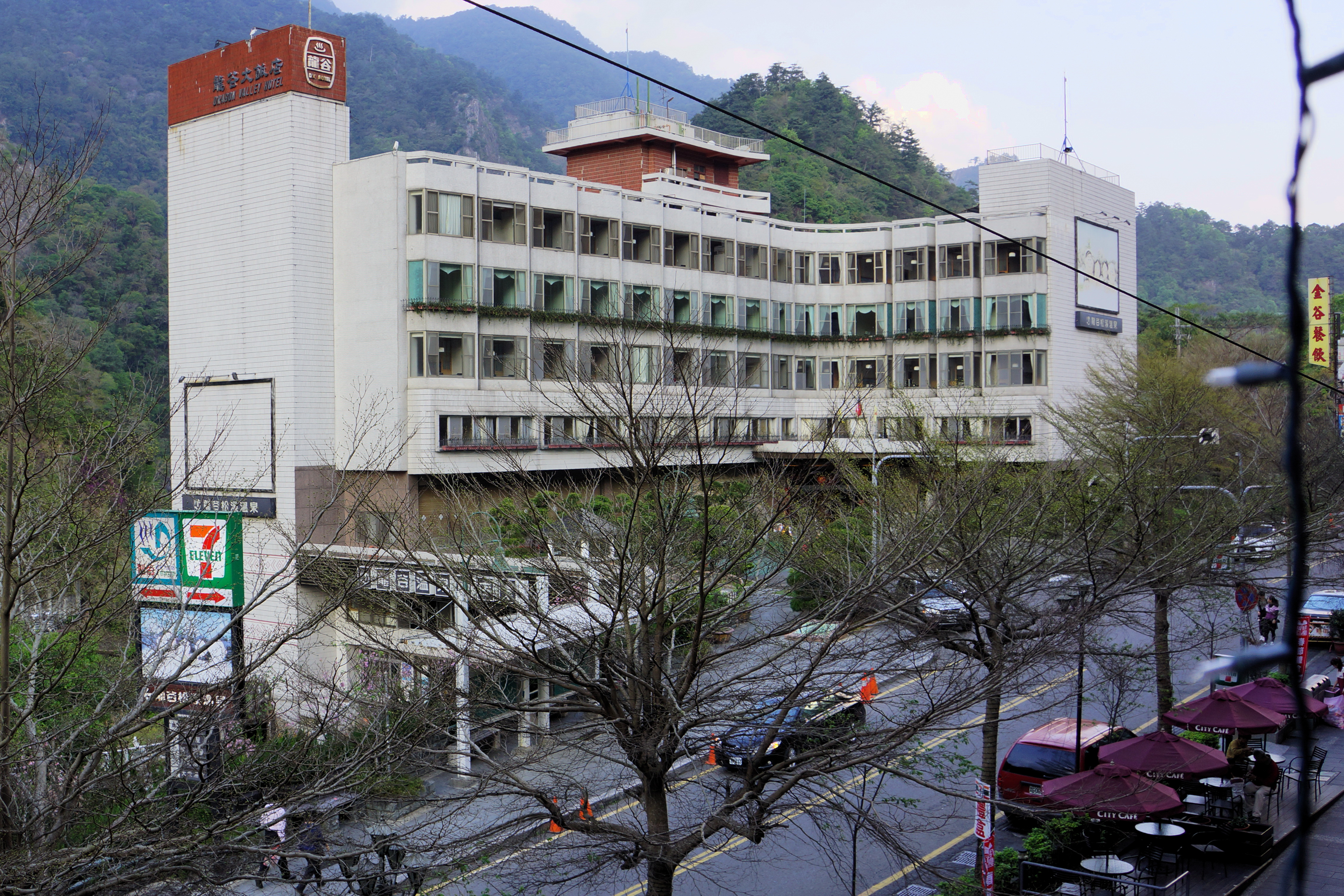 Dragon Valley Hotel 龍谷飯店